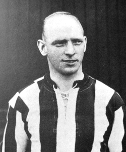 Jack Lane - Cropped from an unmarked postcard from 1926.